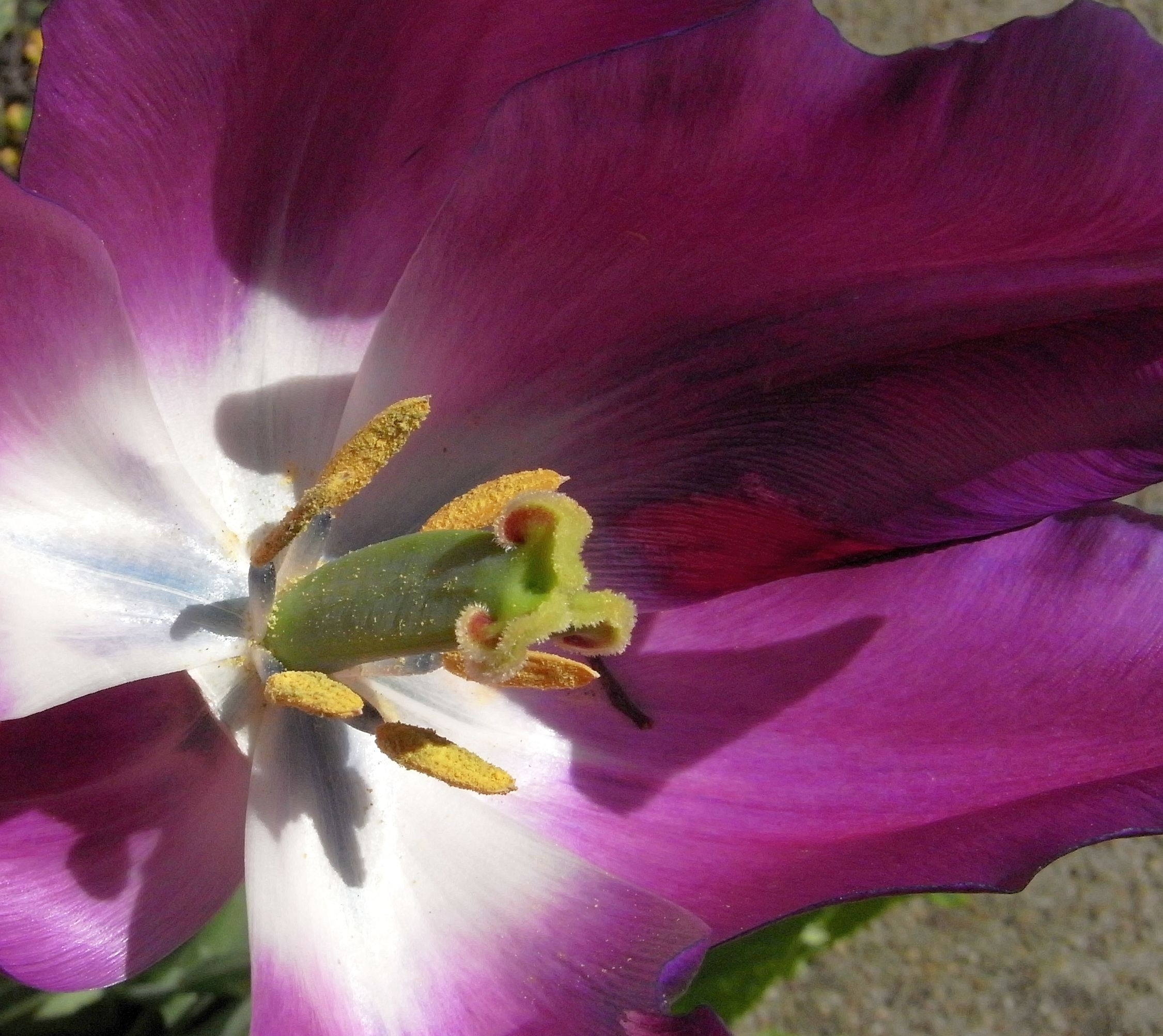 Tulip